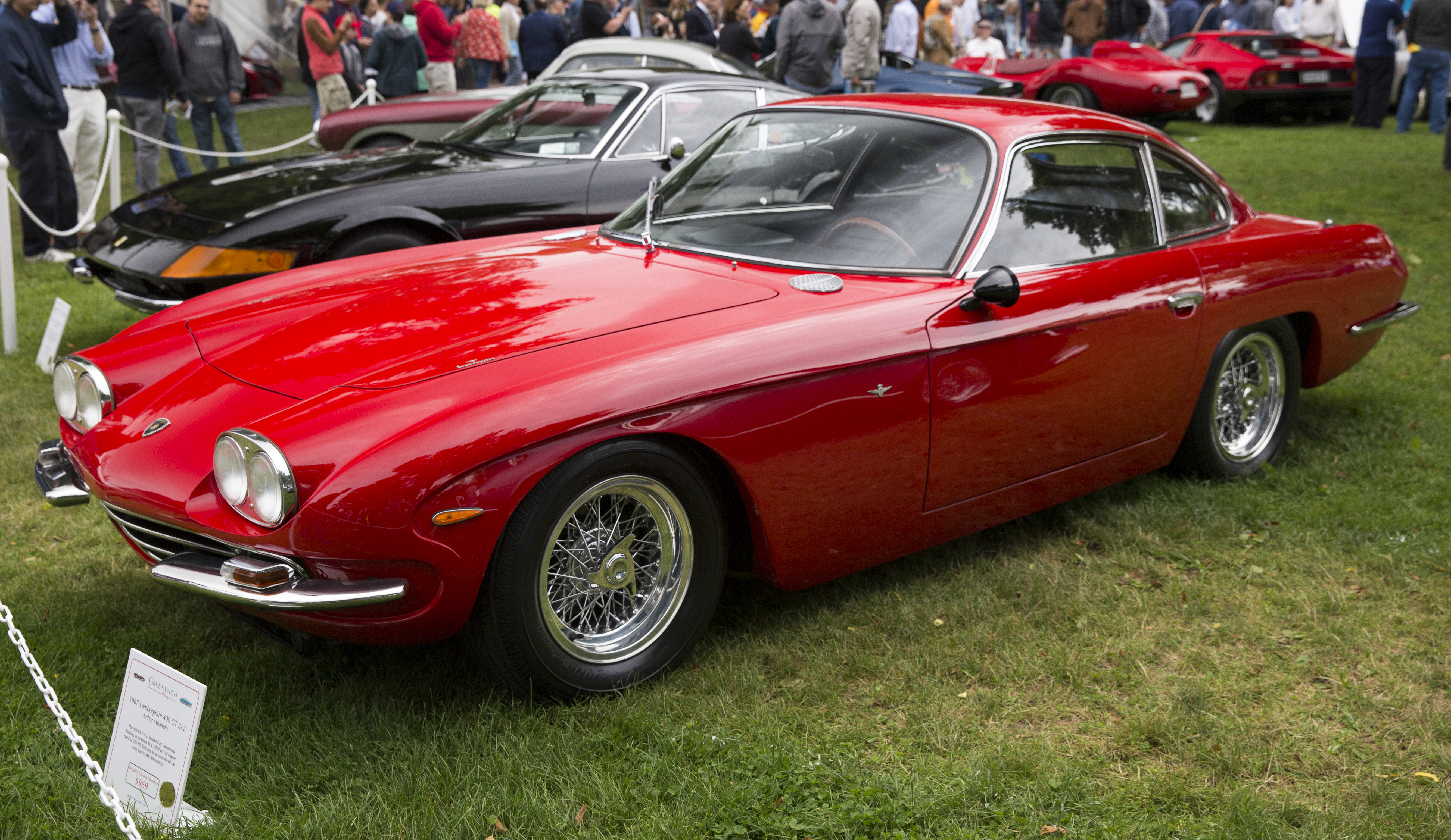 A 1967 Lamborghini 400 GT 2+2 at the 2018 Greenwich Concours d'Elegance. Unrestored, 13,000 miles. Belongs to Arthur Mbanefo, the Odu (chief) of Onitsha.